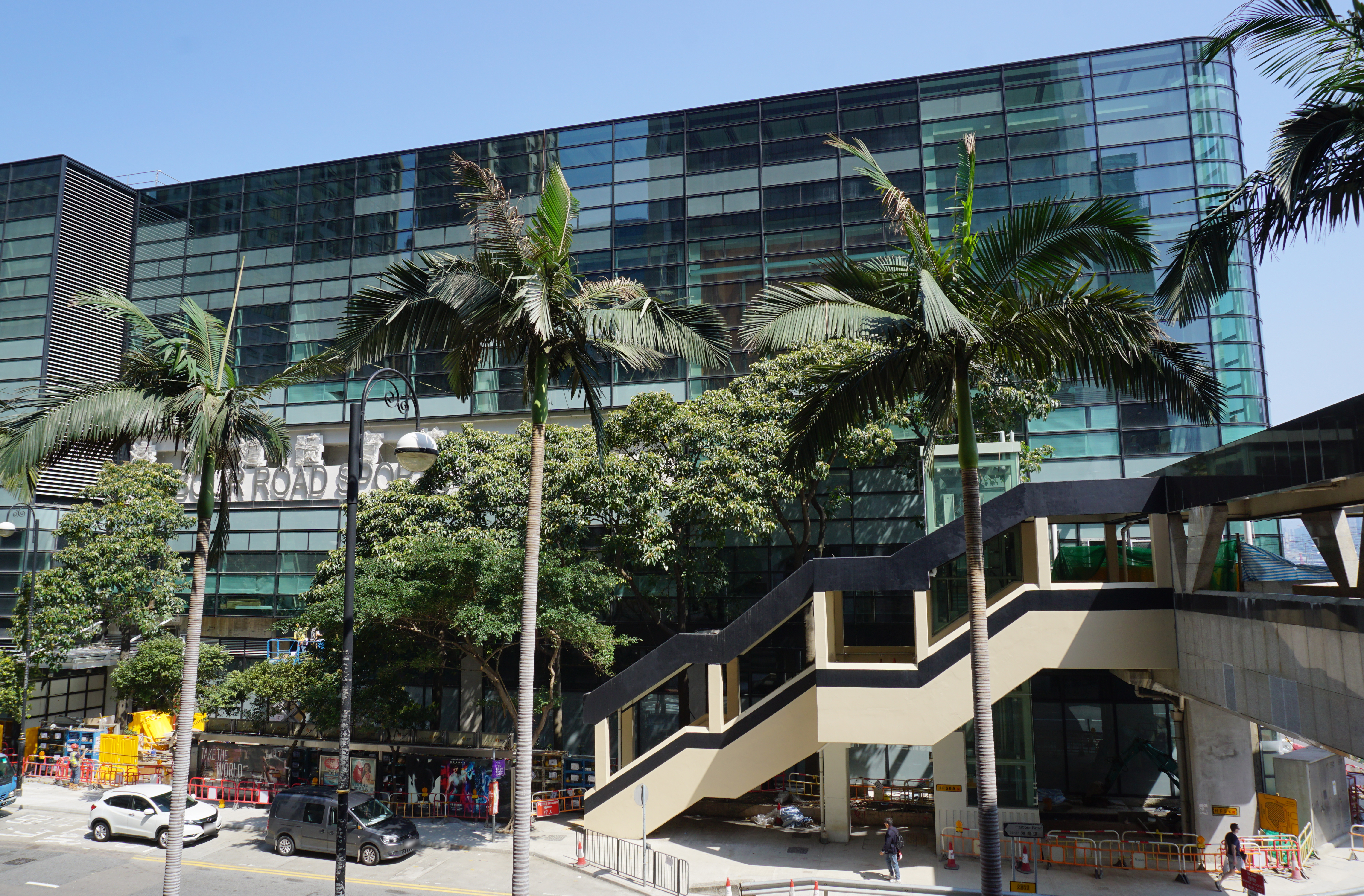 Harbour Road Sports Centre in Wan Chai, Hong Kong.